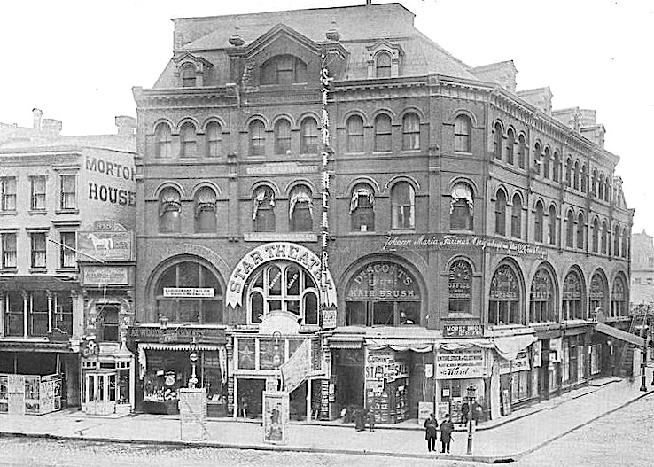 Star Theatre, northeast corner of 13th Street and Broadway